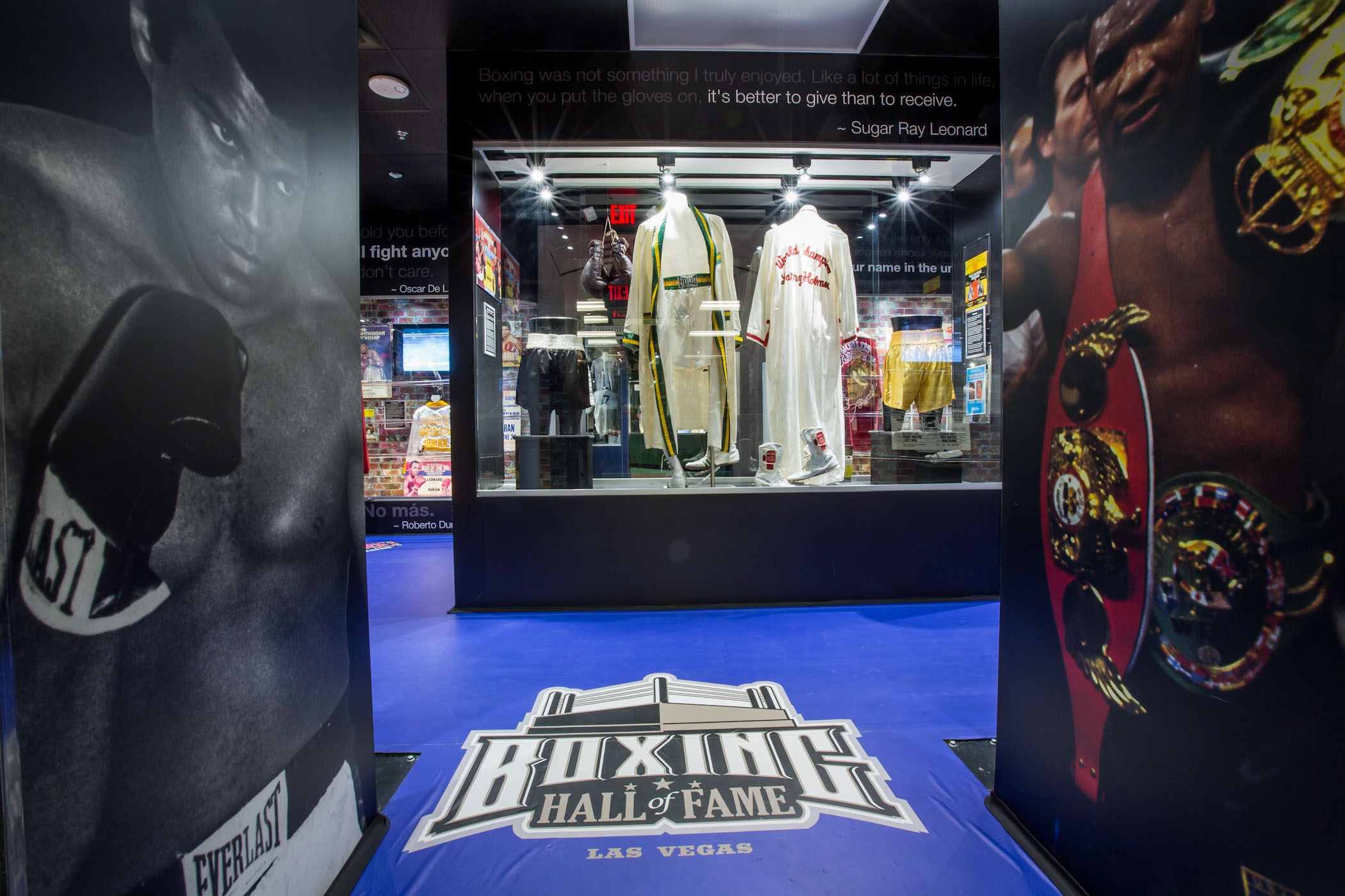 Larry Holmes Robes at Boxing Hall of Fame, Luxor Hotel, Las Vegas, Nevada